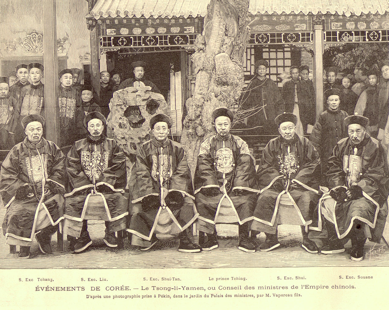 An photographic engraving of the members of the Zongli Yamen in 1894, at the time of the Sino-Japanese War. 右起：孙毓汶、徐用仪、庆亲王奕劻、许庚身、廖寿恒、张荫桓。